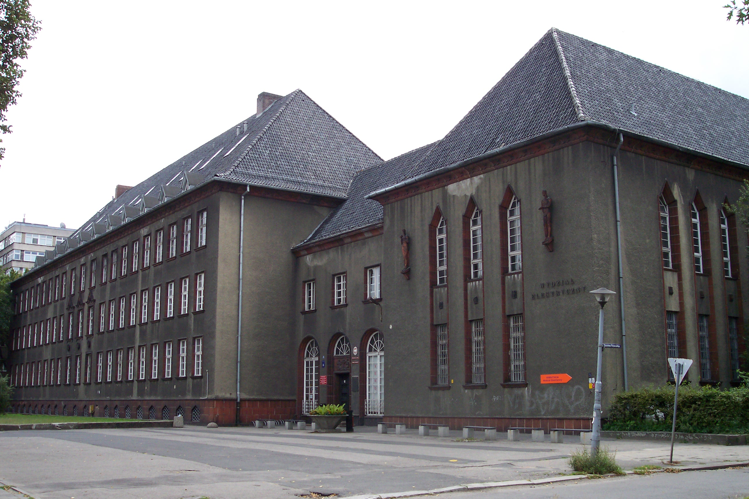 Gliwice, Silesian University of Technology - Faculty of Electrical Engineering